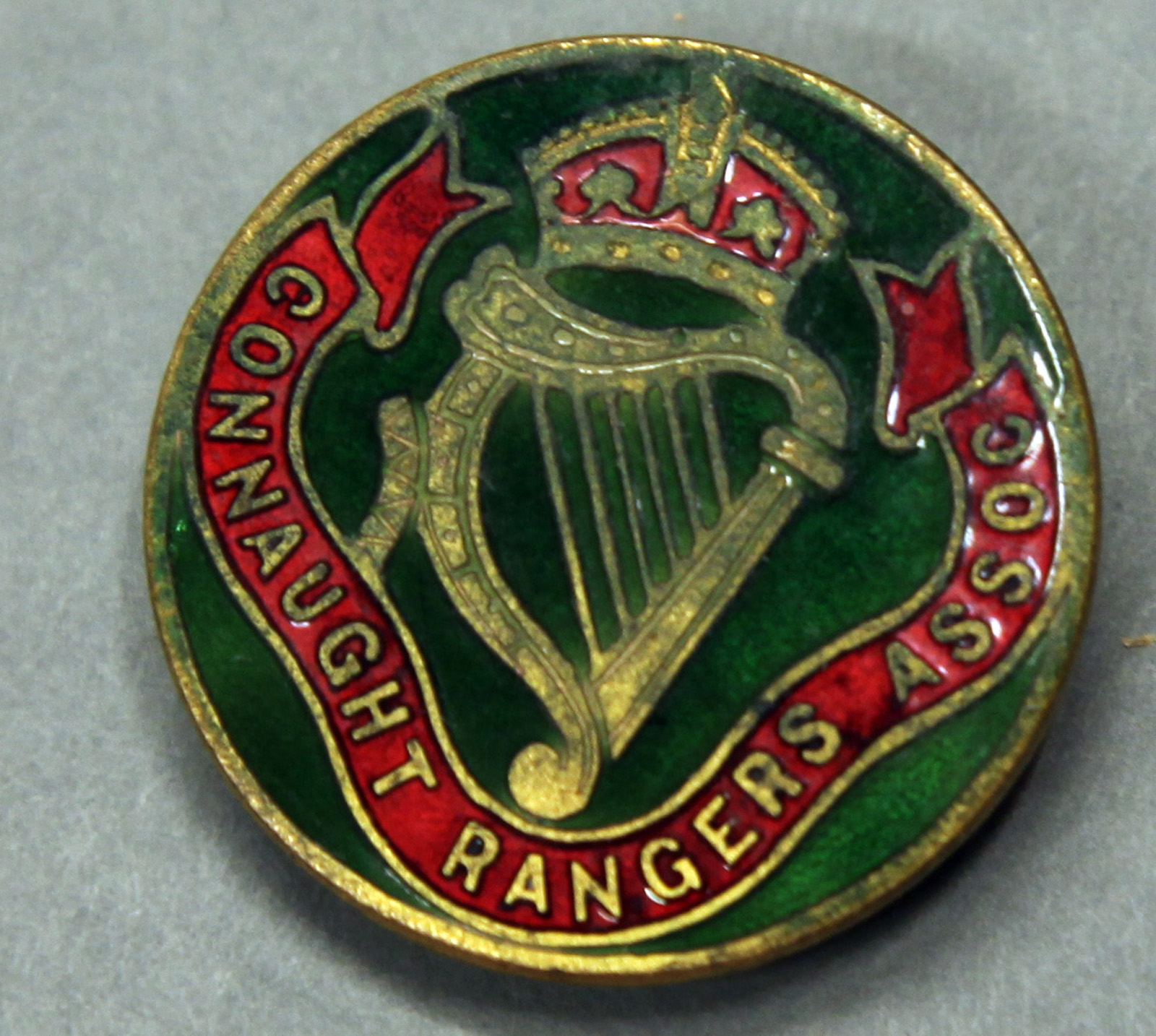 Medals, Papers, Badge and Photograph of Lieut. Thomas Charles Slowey, my father.